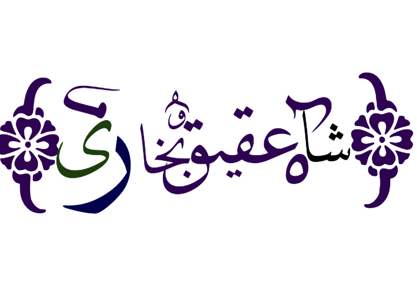 Calligraphy